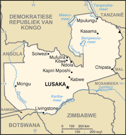 An Afrikaans map of Zambia.